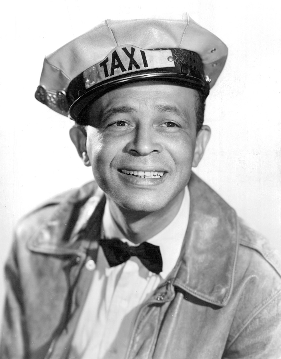 Photo of Alvin Childress as Andy from the television version of "Amos 'n' Andy".